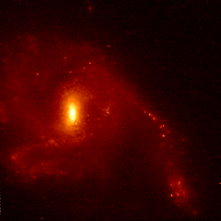 Color rendering is done by by Aladin-software (2000A&AS..143...33B.)